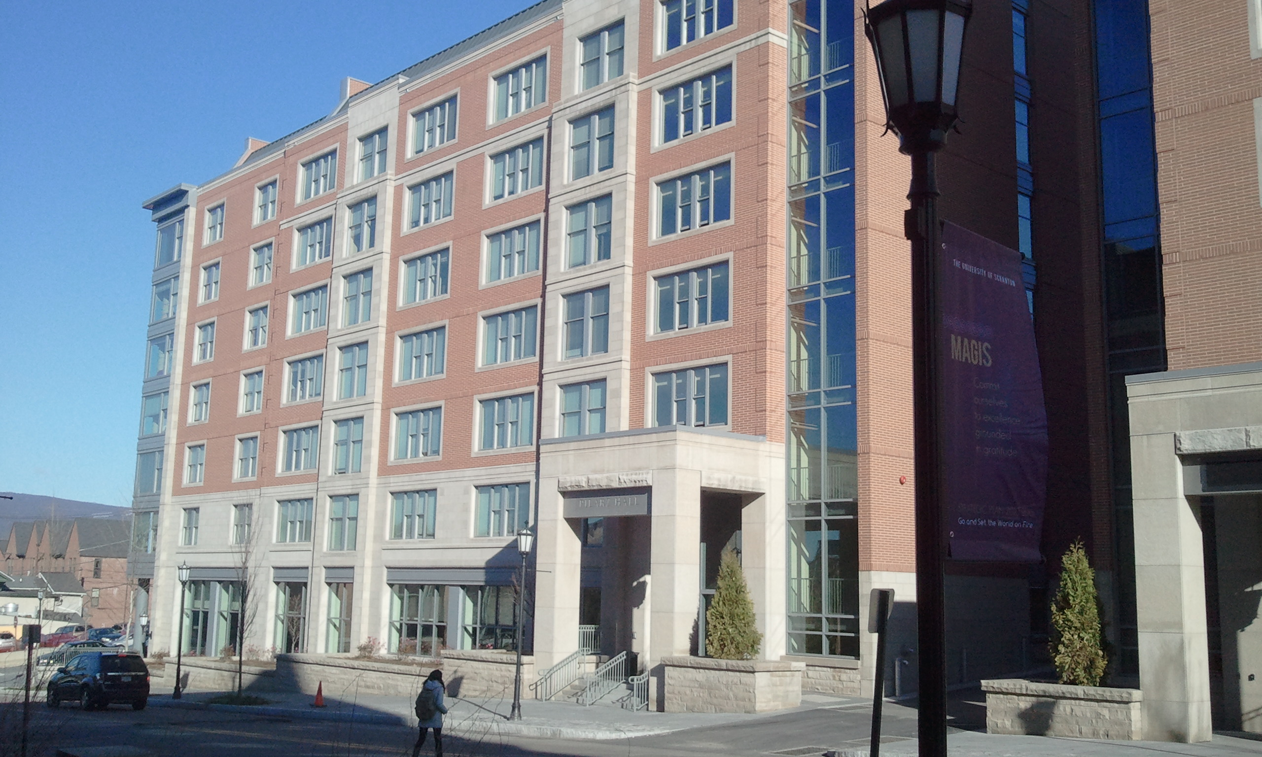 The newly finished and dedicated (Fall 2011) Pilarz Hall on a cold December morning.